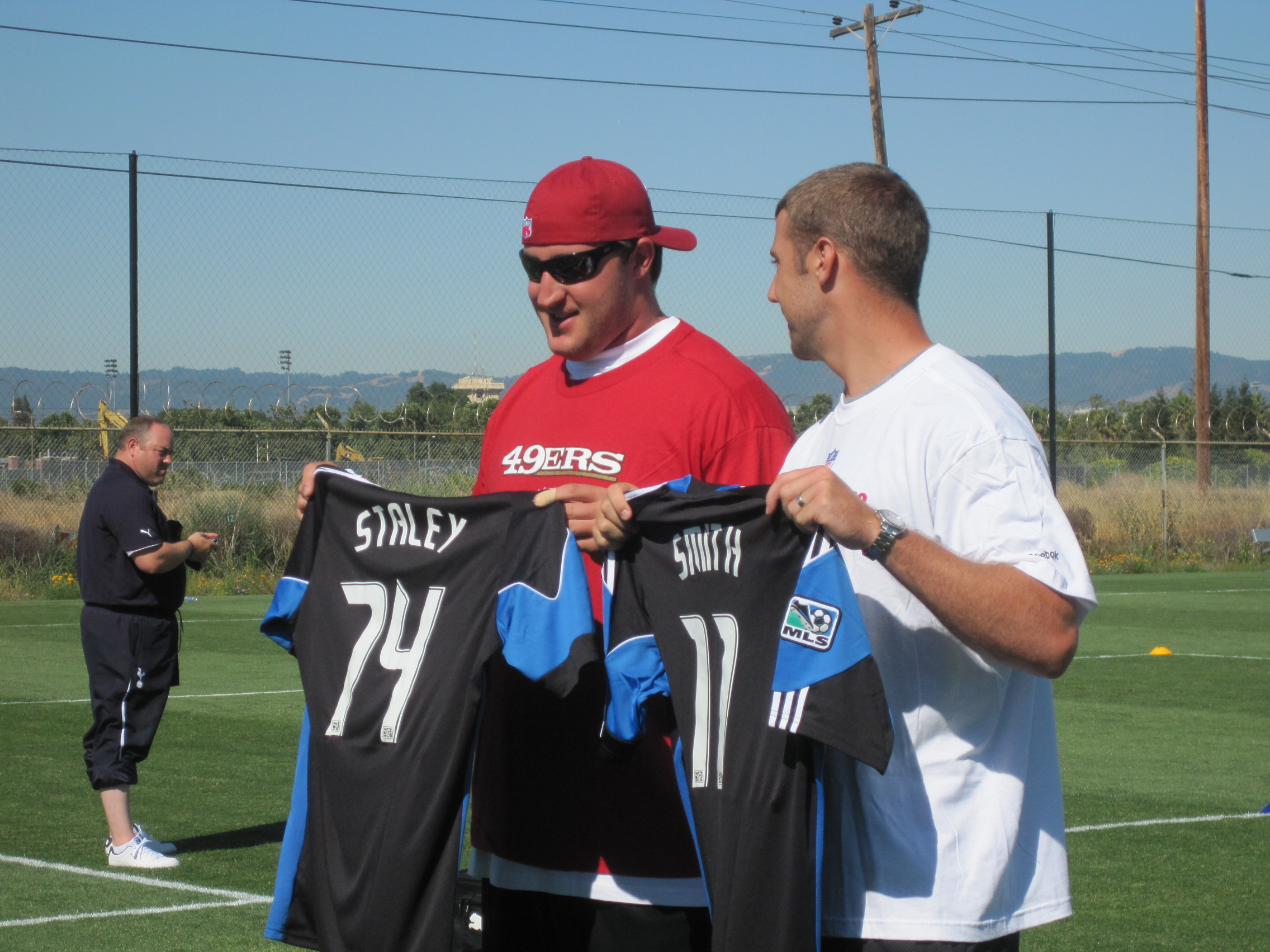 Joe Staley and Alex Smith of the San Francisco 49ers at a training session before a friendly match between the San Jose Earthquakes and Tottenham Hotspur.